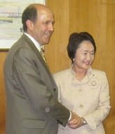 John Roos, Ambassador to Japan, met with Fumiko Hayashi, Mayor of Yokohama City, in Yokohama City, Kanagawa Prefecture, on September 8, 2009.